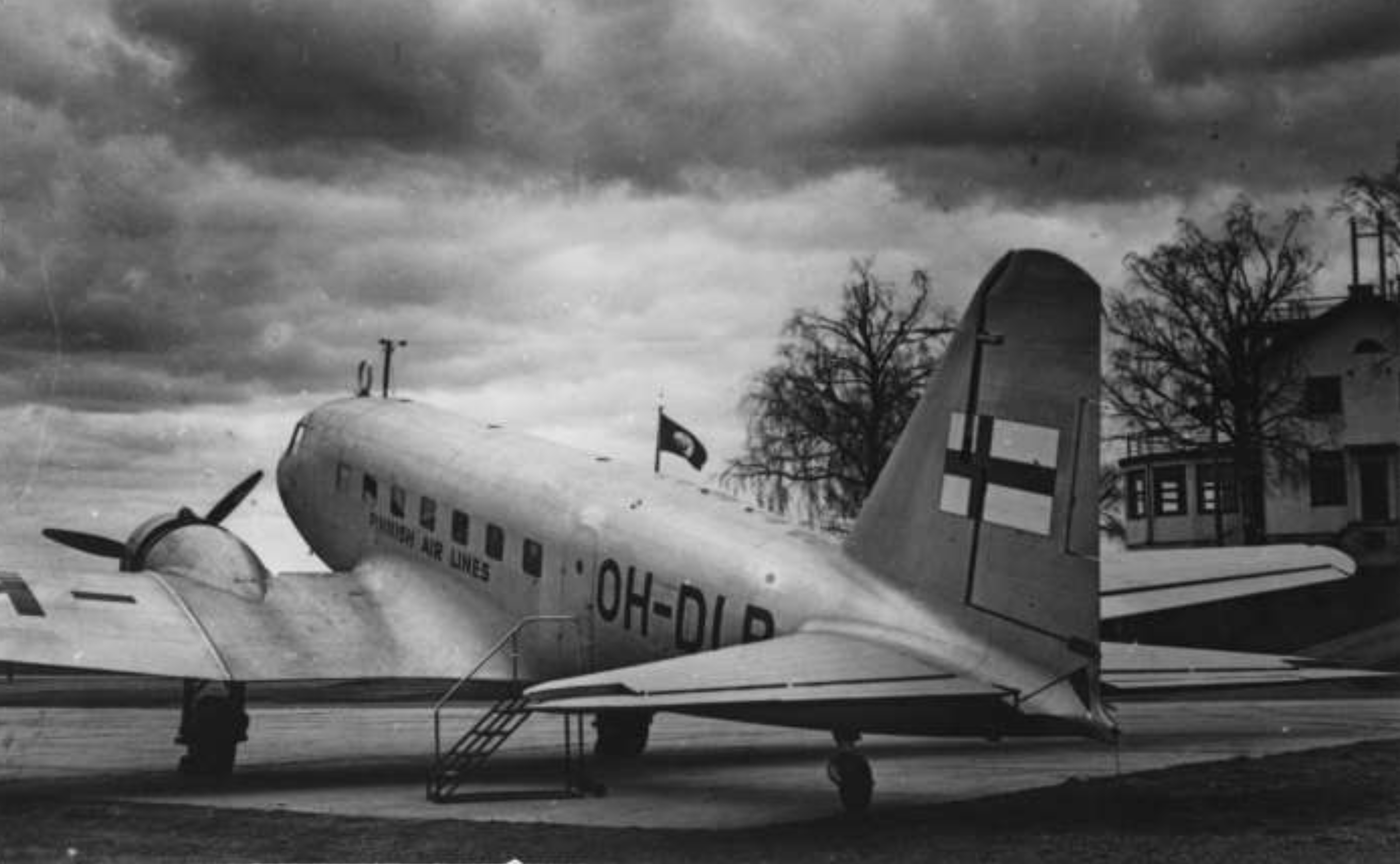 Aero O/Y Douglas DC-2 aircraft (OH-DLB) photographed at Artukainen Airport in Turku, Finland between 1941 and 1945.